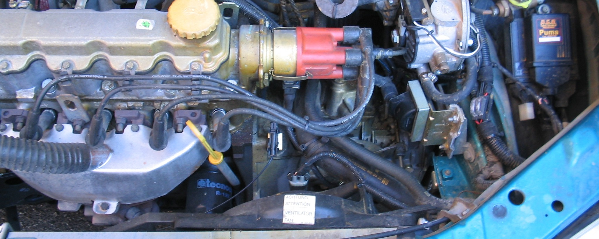 Installation of electronic ignition IDI of an automobile, characterized by the use of the distributor (not the spinterogeno) and for the two units because of the dual power, gasoline and methane